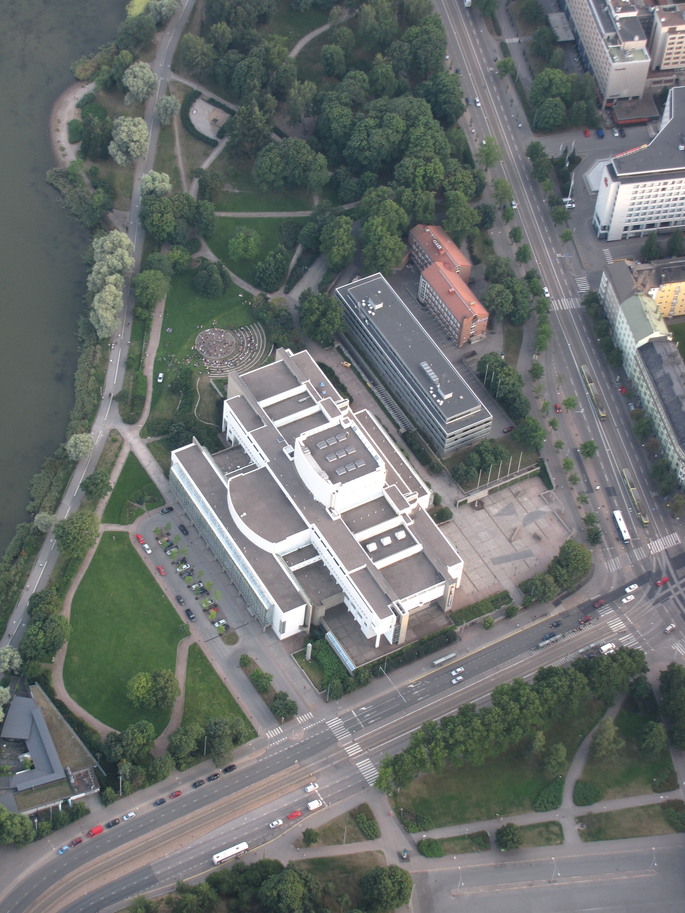 Finnish National Opera photographed from a hot air balloon.